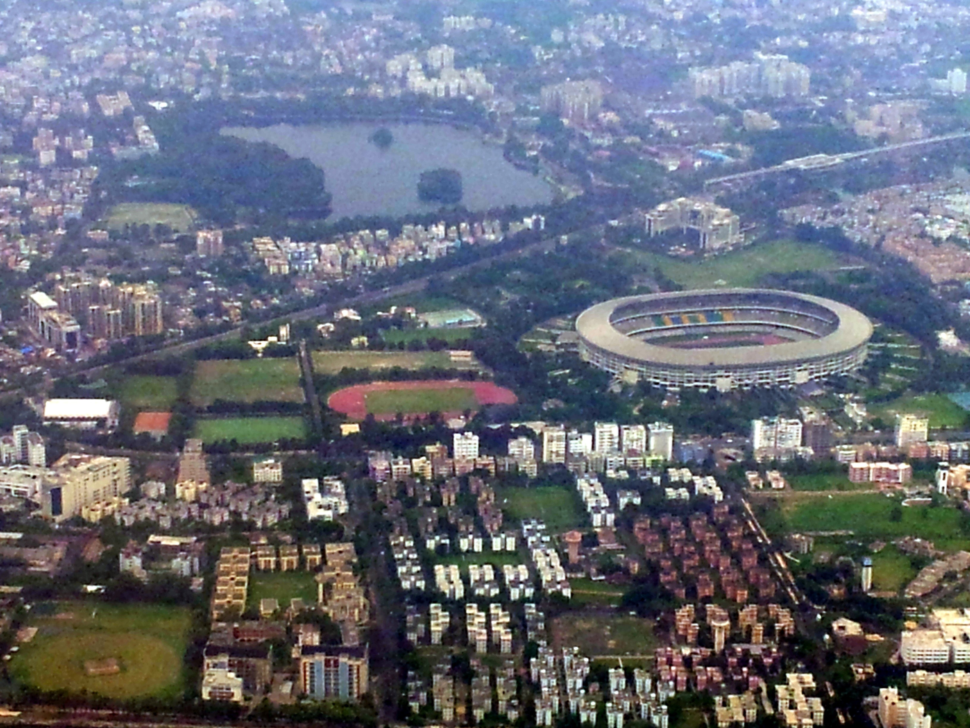 Aerial view of Kolkata near to Netaji Subhash Chandra Bose International Airport, Kolkata, India